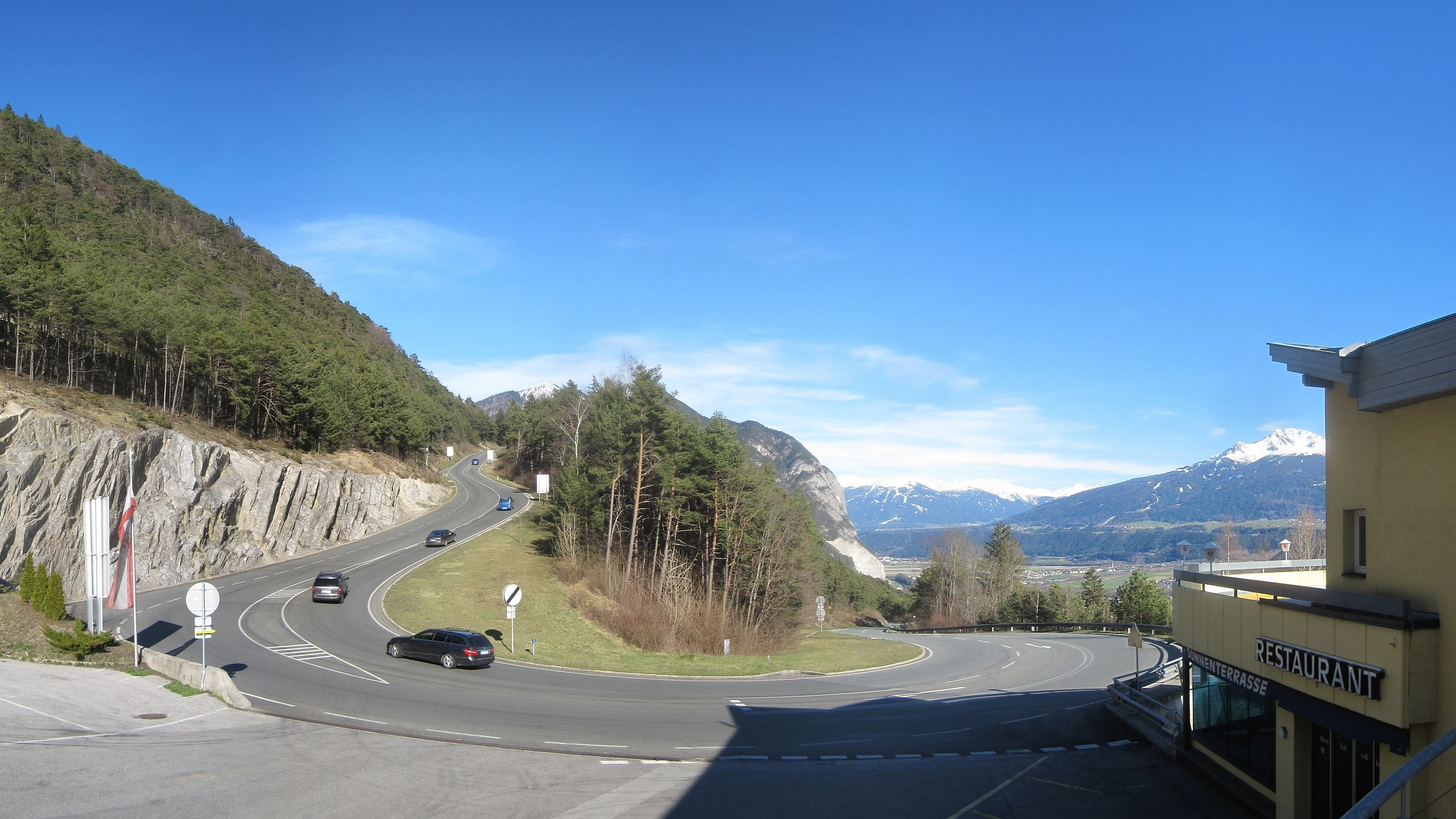 Seefelder Strasse at Zirler Berg, hairpin turn